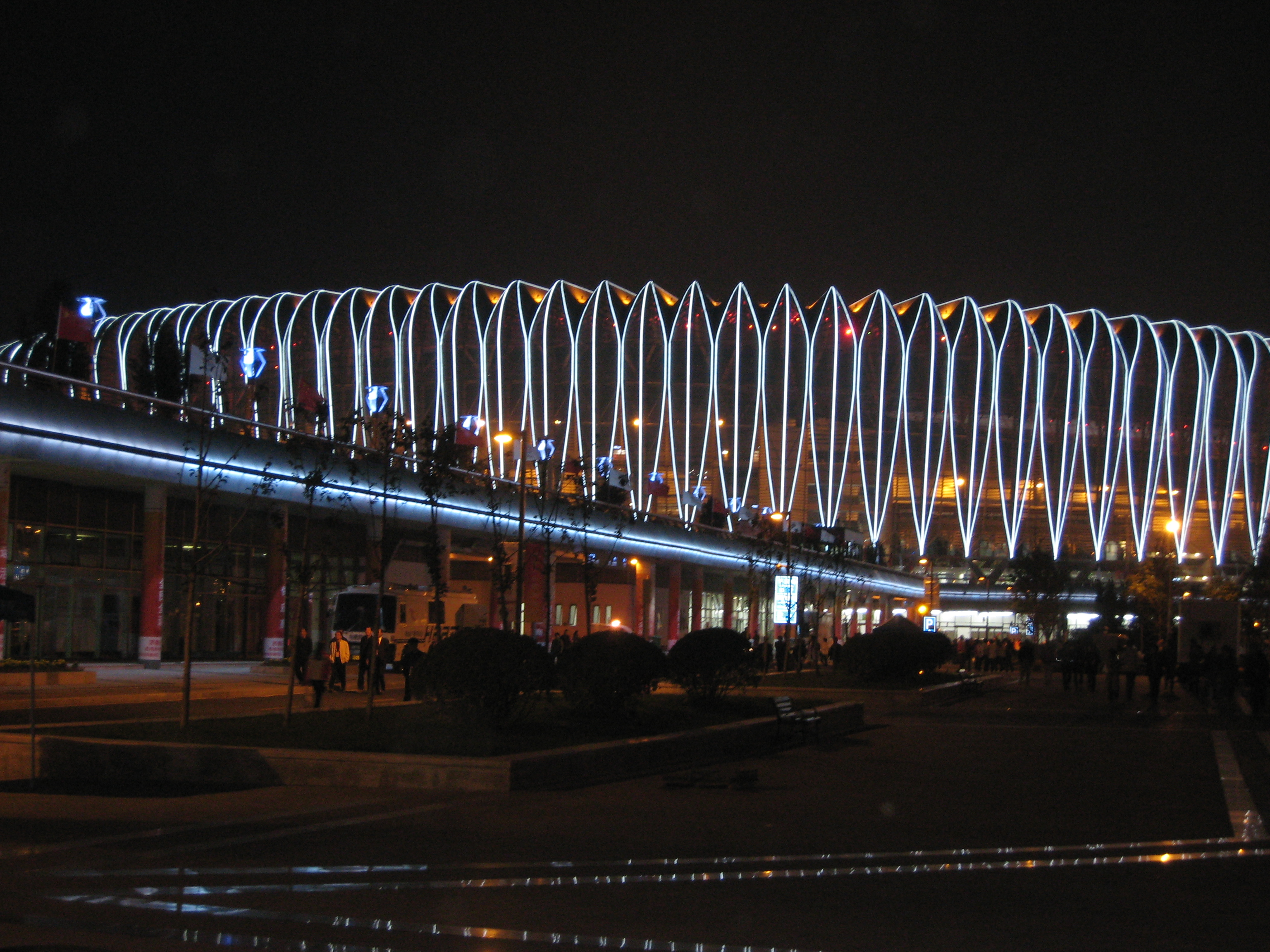 Jinan Olympic Sports Centre